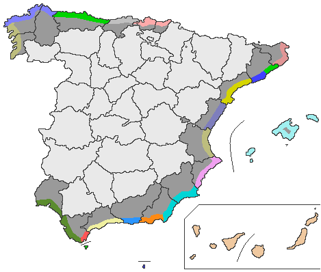 Map of the coasts of Spain.Based in: Image:ProvPont.jpg Source: Designed by Satesclop. Original picture, designed by Sobreira.